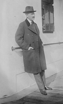 Prince Alexis Karageorgevich (10 June 1859 - 15 February 1920) was the head of the senior branch of the Karageorgevich family and a claimant to the Serbian throne.